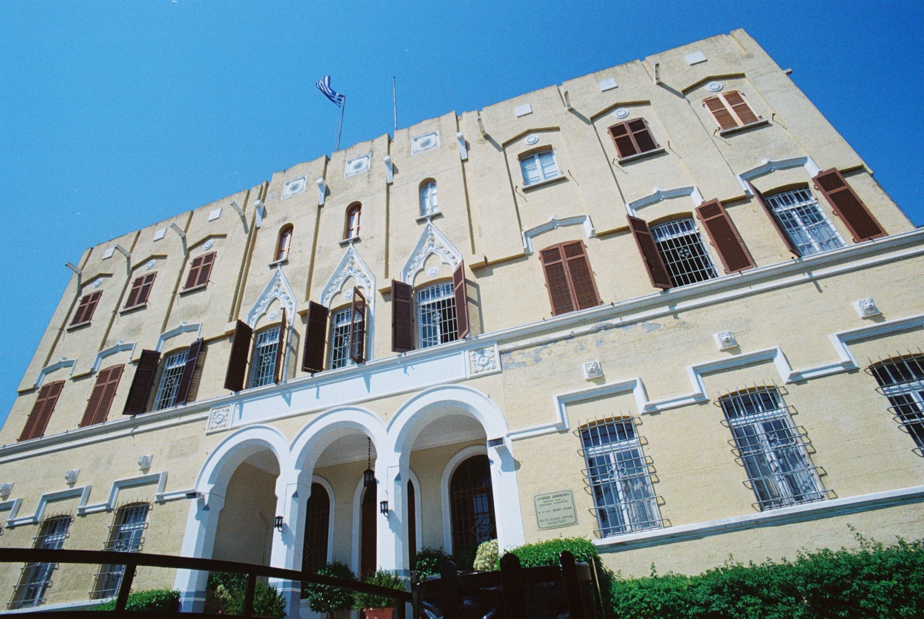 Rodi Scuola Femminile